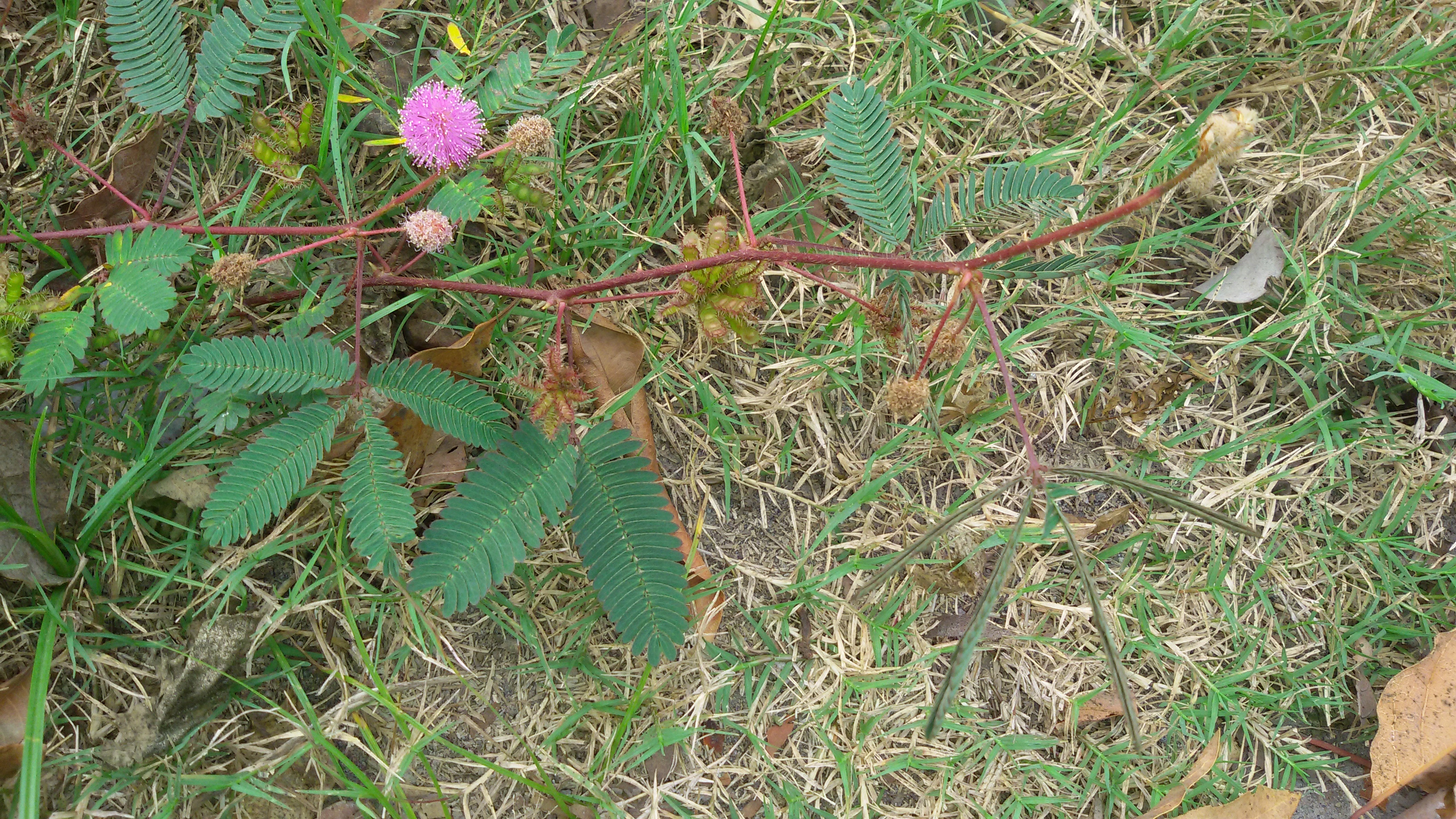 The whole plant of Mimosa pudica includes thorny stem and branches, flower head, dry flowers, seed pods, and folded and unfolded leaflets